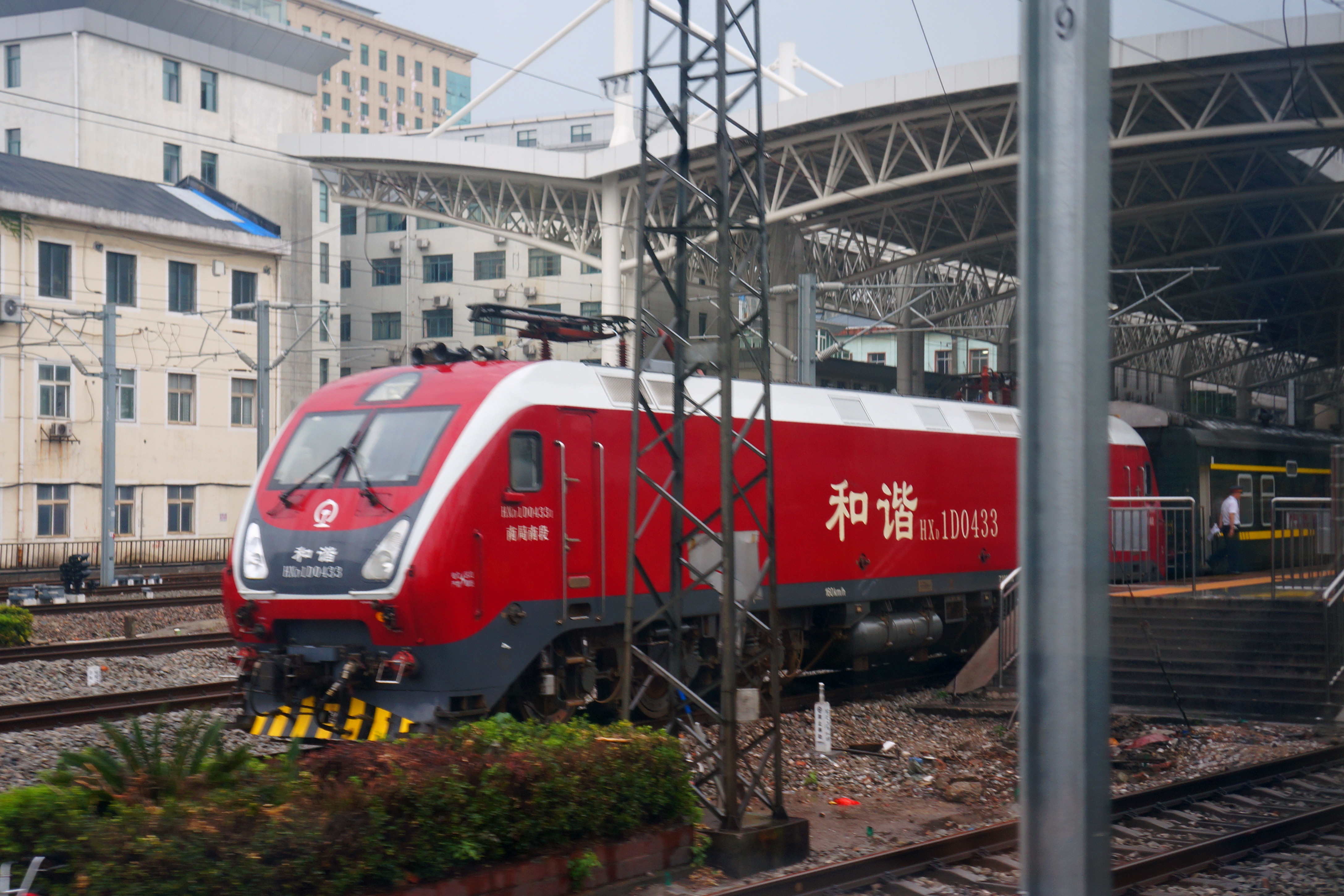 201705 HXD1D-0433 hauls K105 at Nanchang Station